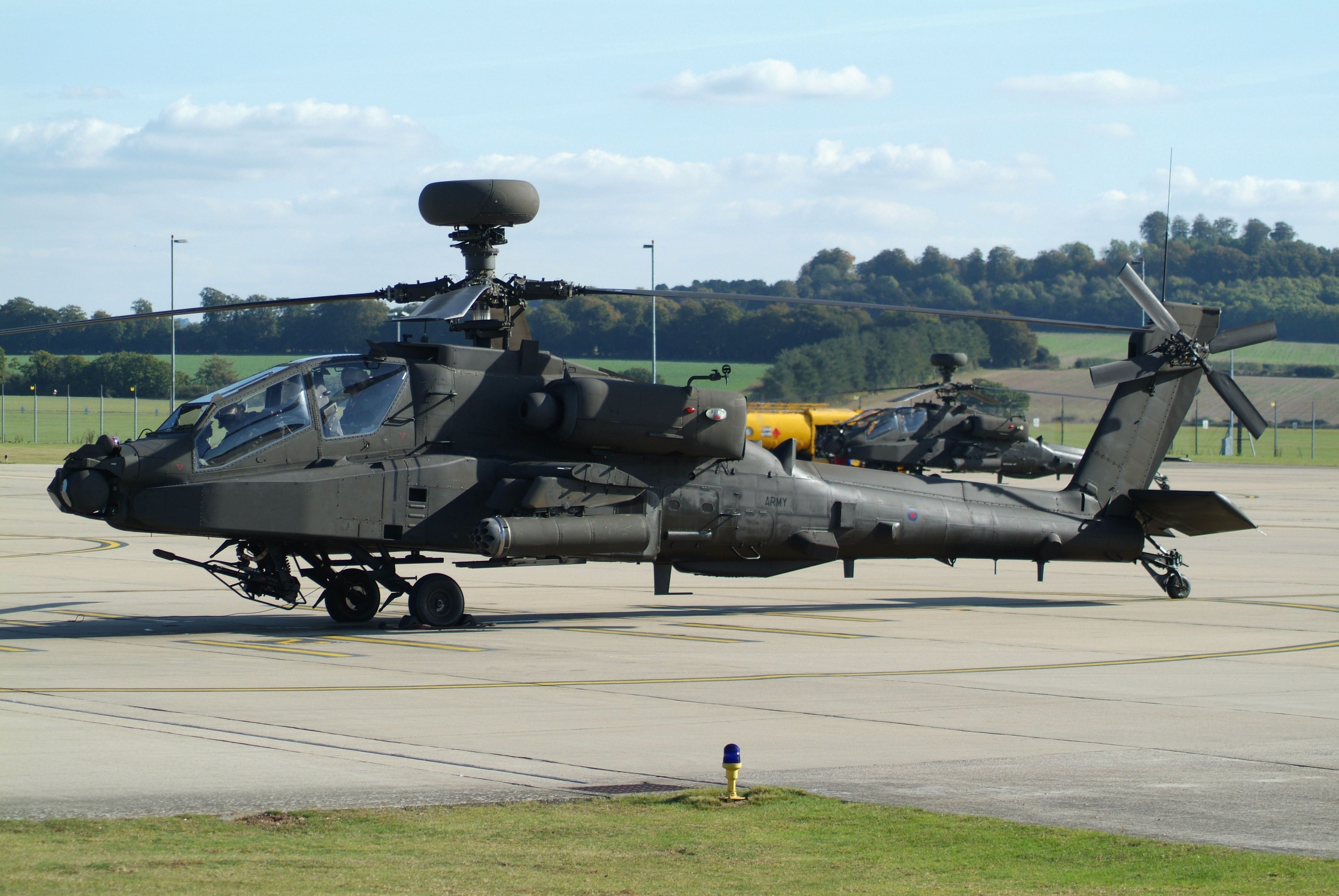 WAH-64D taxiing for takeoff at Middle Wallop, a second WAH-64 can be seen parked in the background